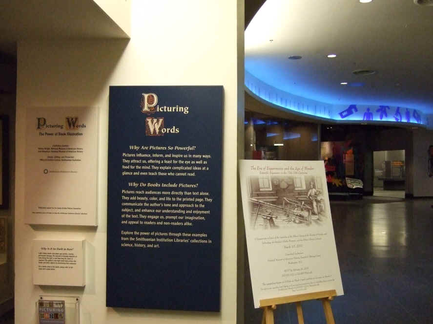 Picturing Words: the Power of Book Illustration. Smithsonian Institution Libraries, traveling exhibition.